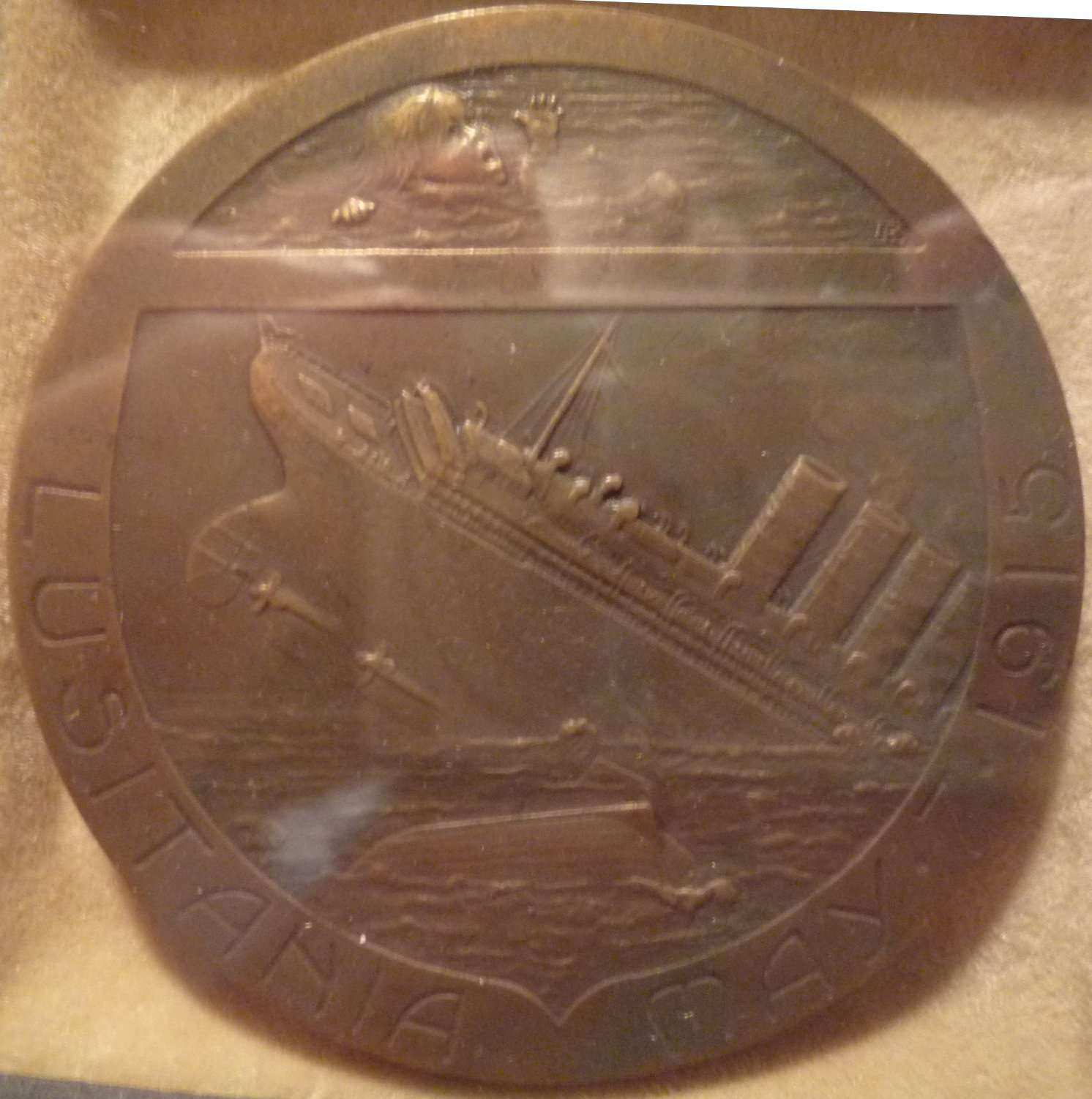 The Lusitania medal by René Baudichon. Unlike the more famous/notorious Goetz Lusitania medal, this one correctly shows the ship sinking bow first. NB. This is a poor quality image photographed through glass in a museum. I have put out requests for better images.